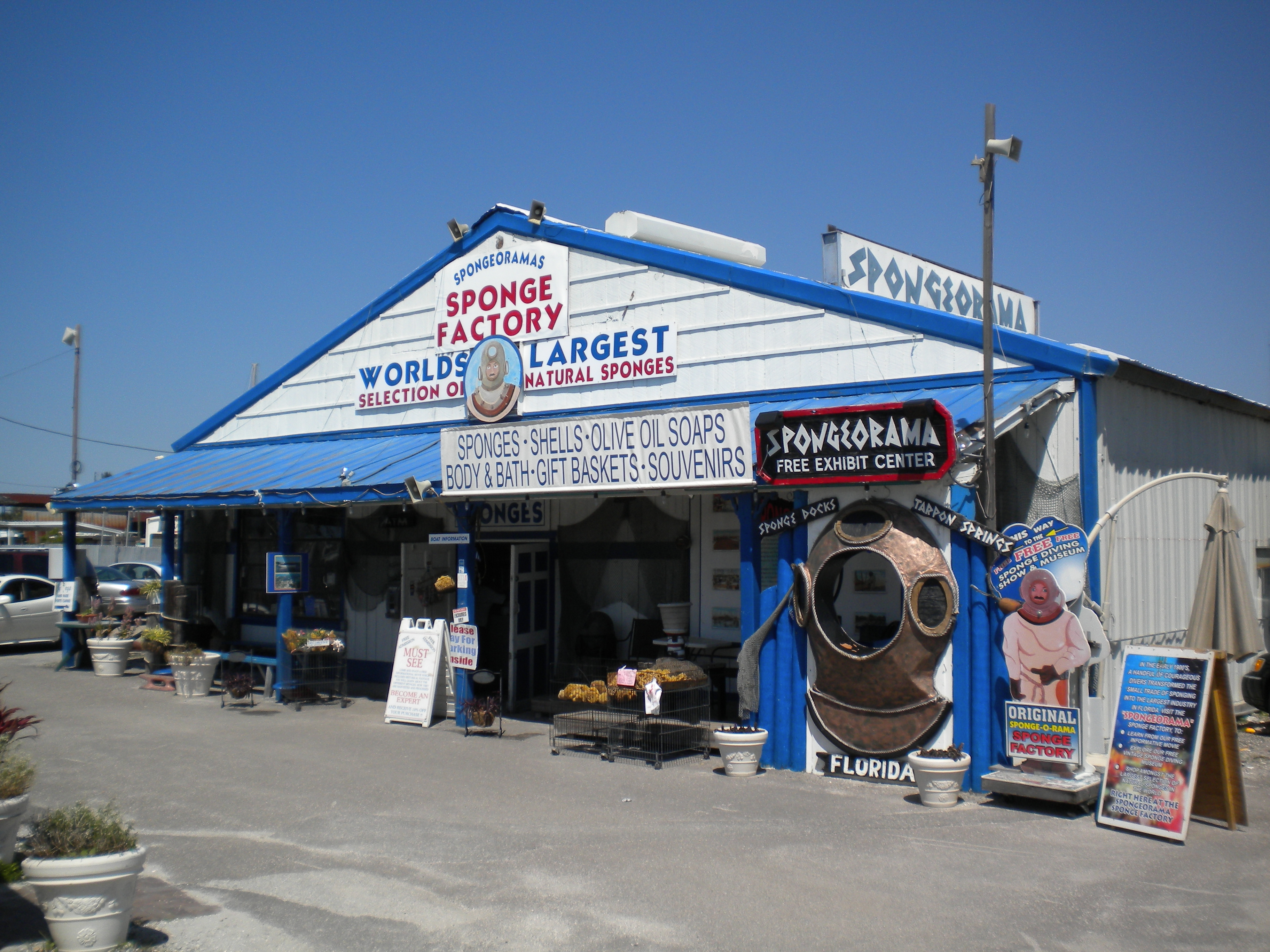 Spongeorama's Sponge Factory, 510 Dodecanese Boulevard, Tarpon Springs, Florida.